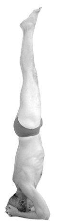 Rája Sírshásana - Inverted position